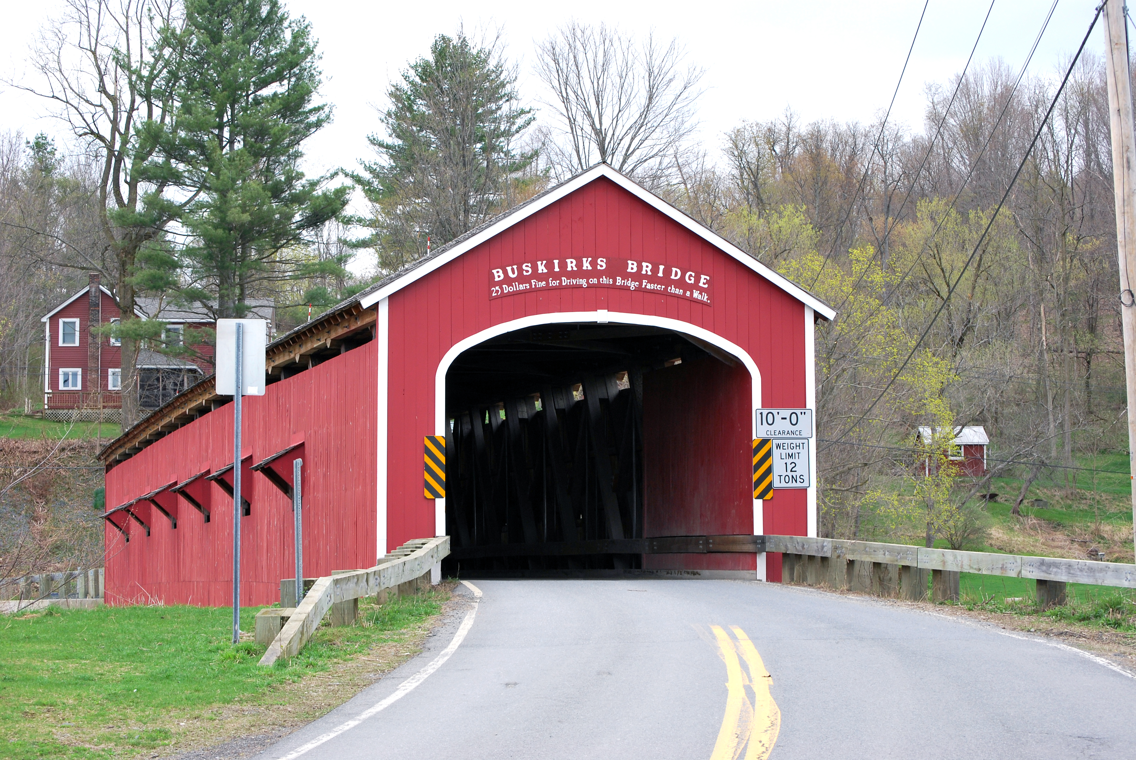 Buskirk Bridge, a wooden covered bridge in the hamlet of Buskirk, New York, United States. It crosses the Hoosic River and connects Washington County and Rensselaer County. It was built in 1850 and added to the National Register of Historic Places in 1978. (Photo taken from the Rensselaer County side.)